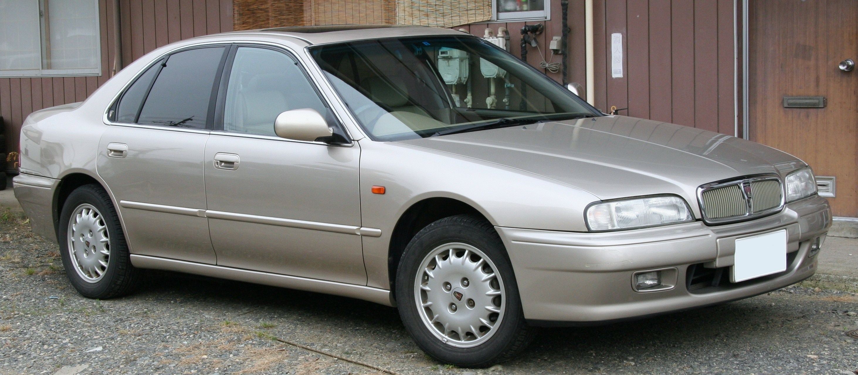 Rover 600